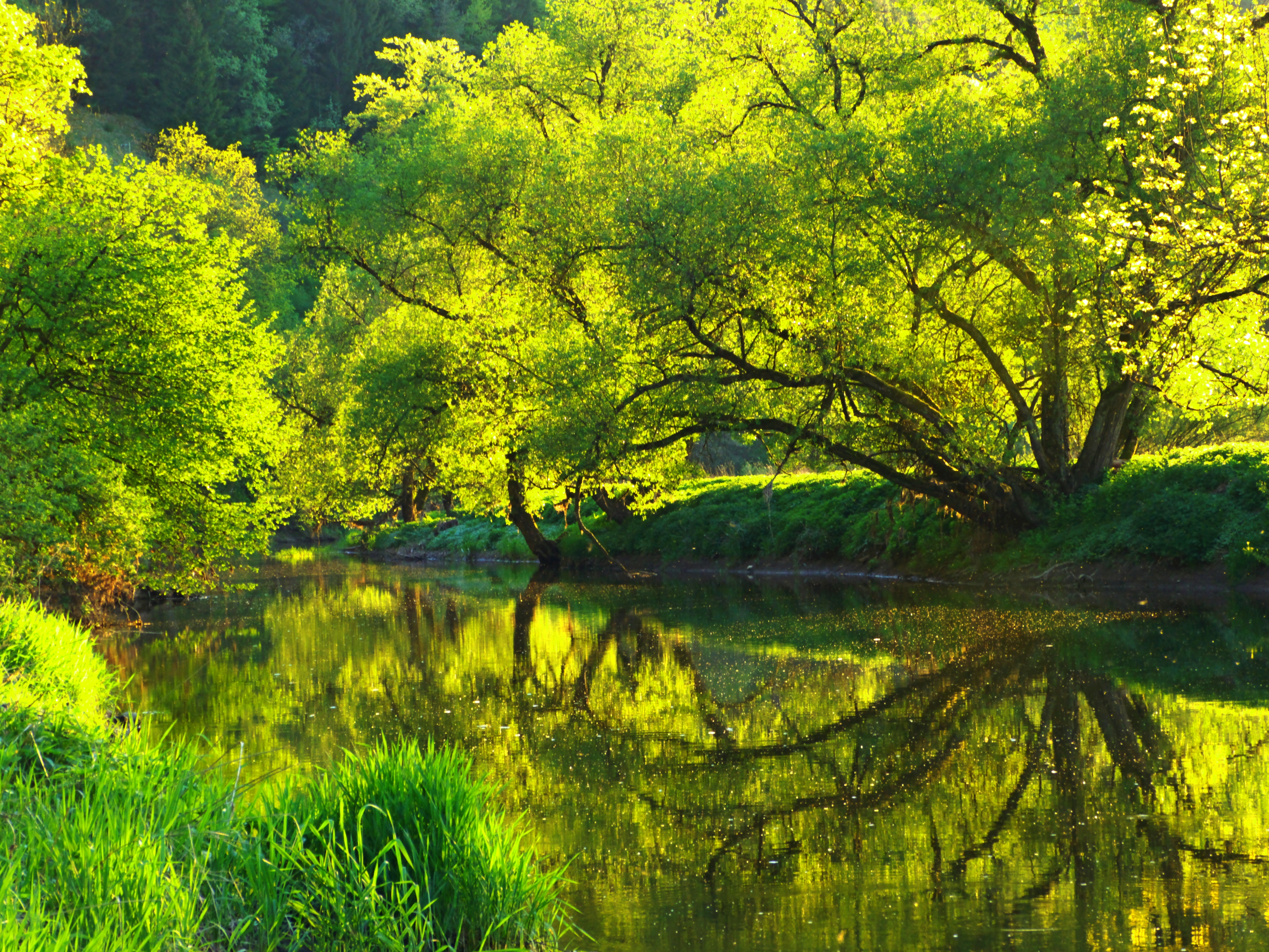 The Green